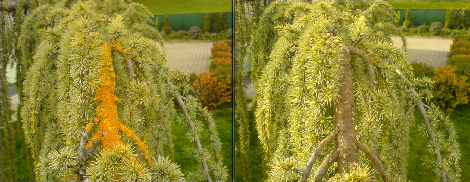 Tree covered with yellow lichen before and after treatment